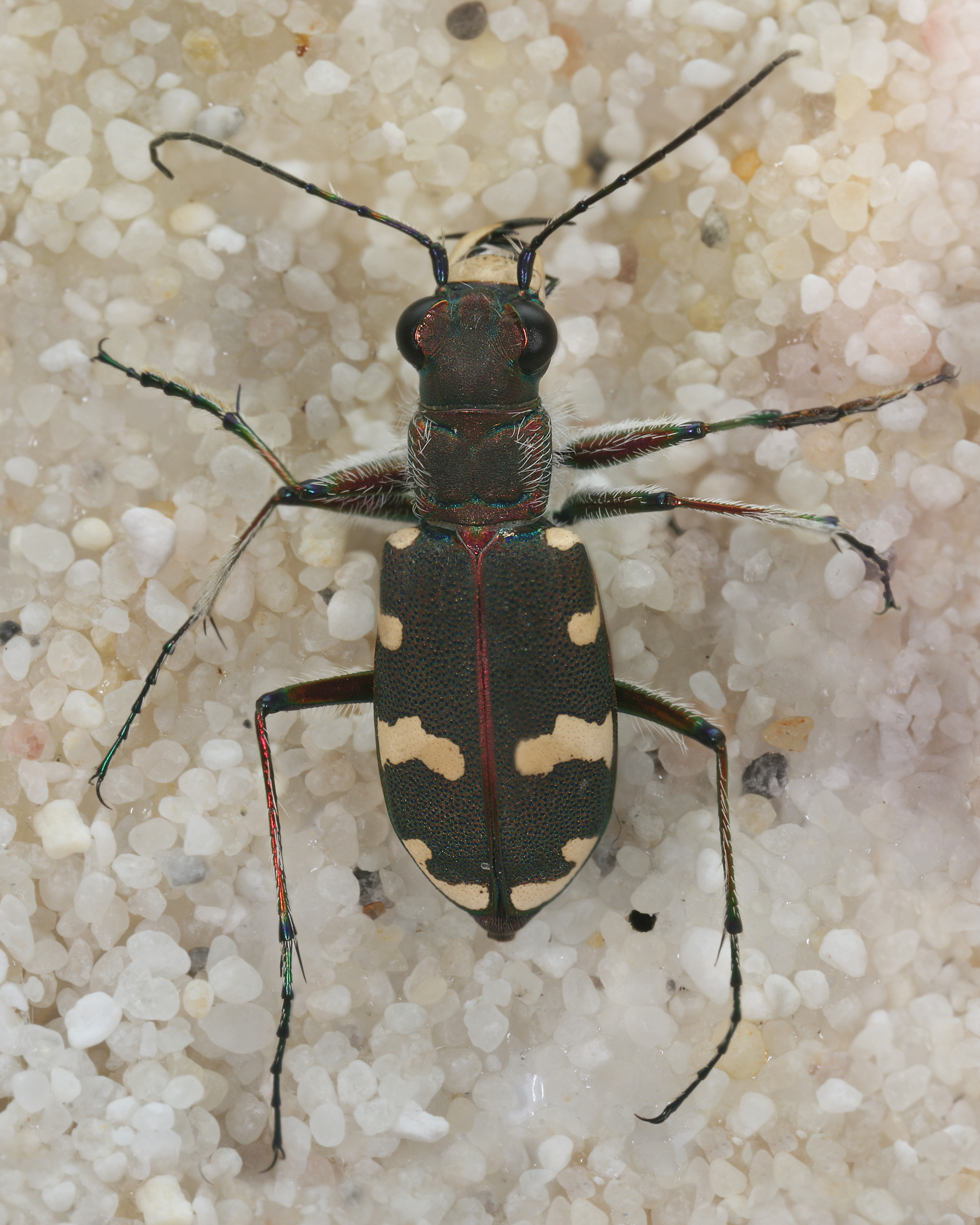 Description: The tiger beetles are a large group of beetles known for their predatory habits. As shown a Sandlaufkäfer 'Cicindela hybrida'